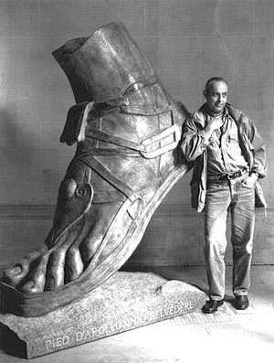 Andrey Lekarski and his monumental sculpture "Le Pied d'[Apollon_du_Belvédère]"